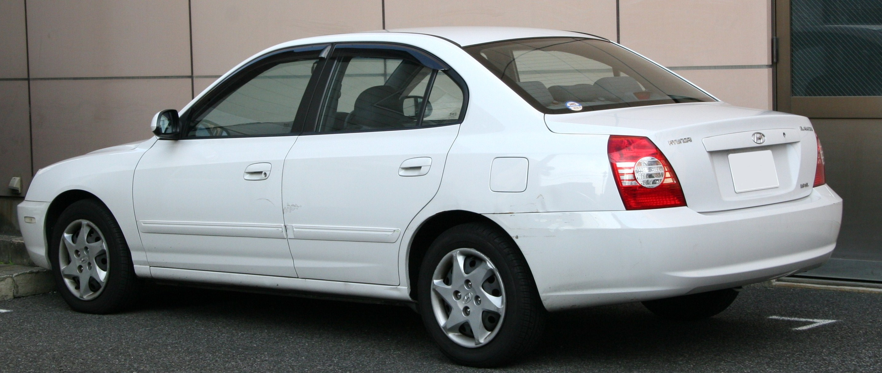 Hyundai Elantra